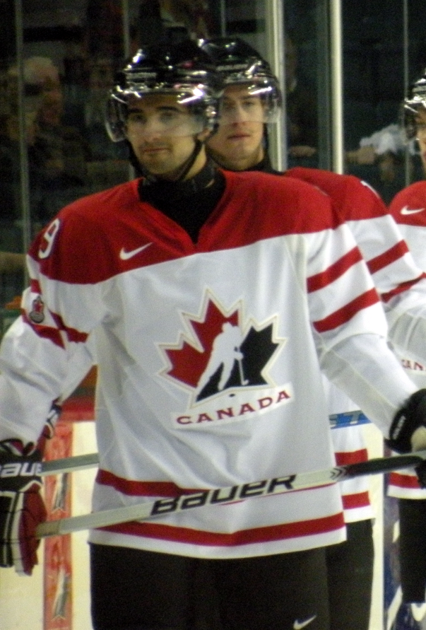 Canadian junior forward Nazem Kadri prior to an exhibition game against the Finnish junior team at Calgary, Alberta.